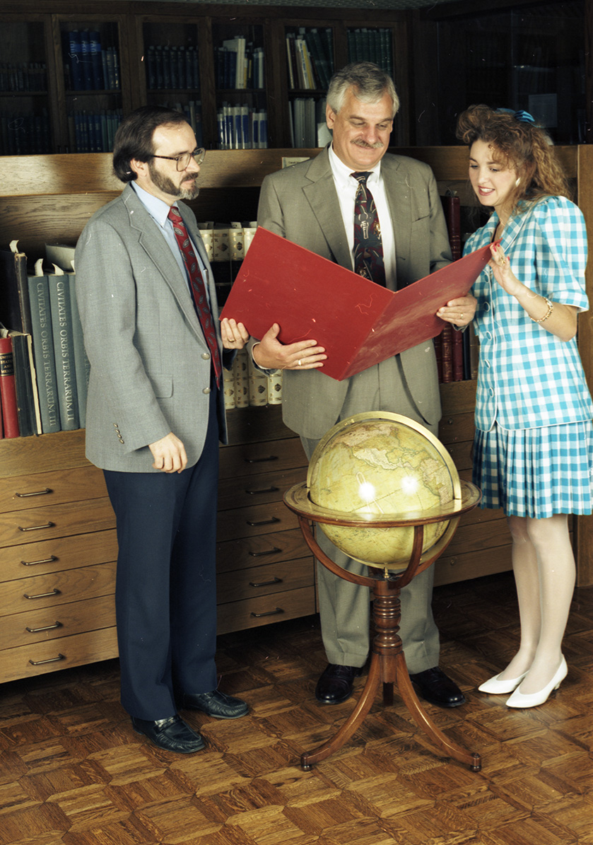 Left to right, Gerald Saxon, University President Amacher, unidentified girl in University of Texas at Arlington's Central Library Special Collections.